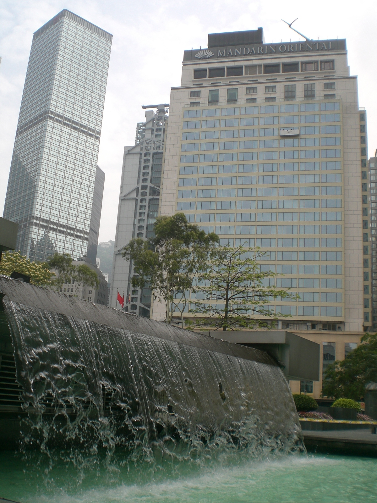 Connaught Place (康樂廣場) is a place near Jardine House, formerly Connaught Centre, in the Central, Hong Kong. Author= User:VictoriaOP